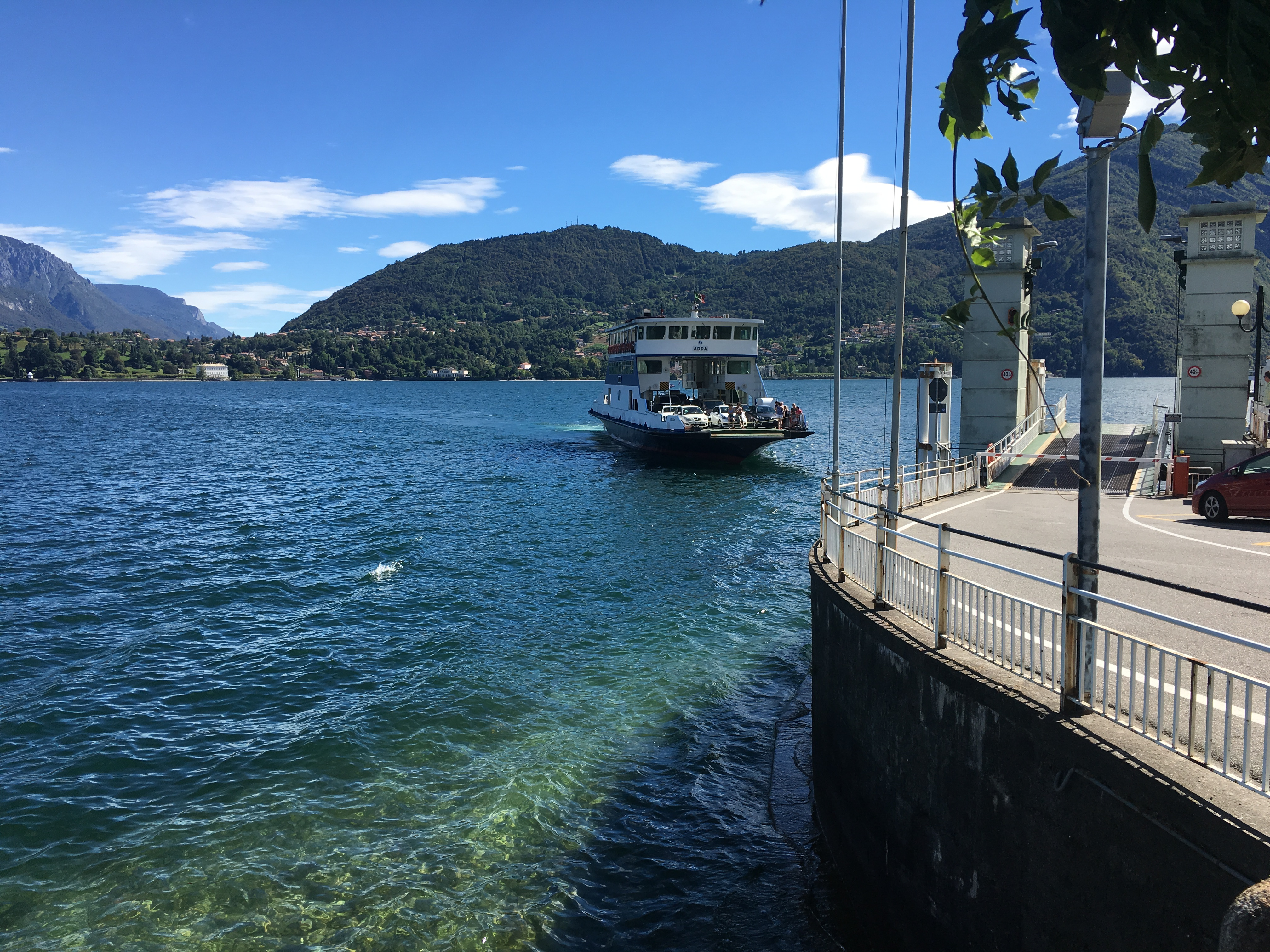 Cadenabbia